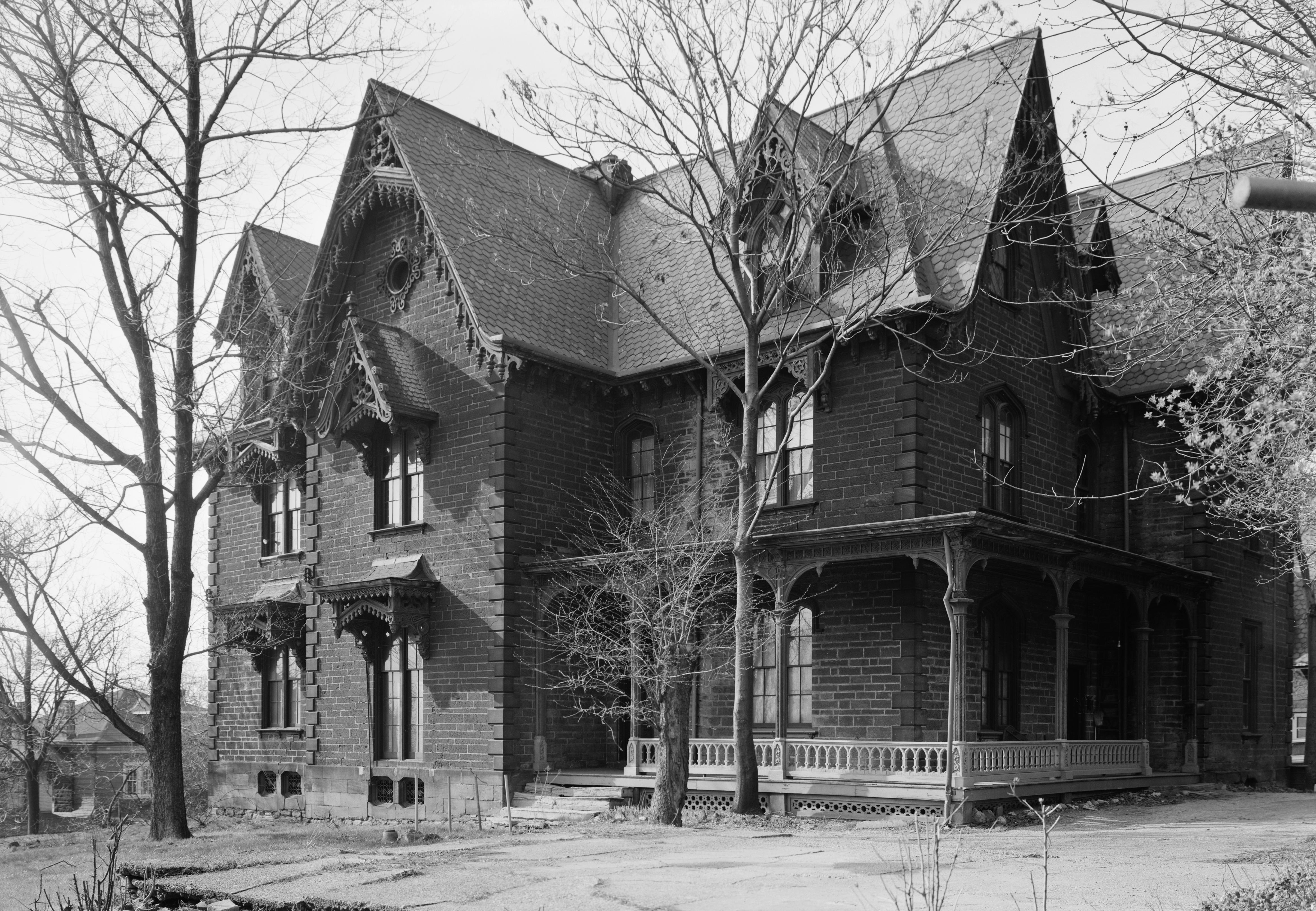 Front of the John F. Singer House, located at 1318 Singer Place in Wilkinsburg, Allegheny County, Pennsylvania. Built in 1865, it is listed on the National Register of Historic Places. Image courtesy of federal HABS—Historic American Buildings Survey in Pennsylvania project.